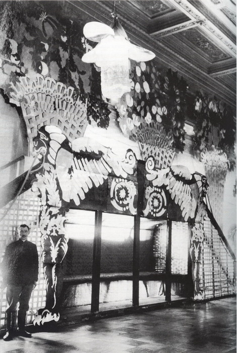 Vladimir Drittenpreis at the Hunting club